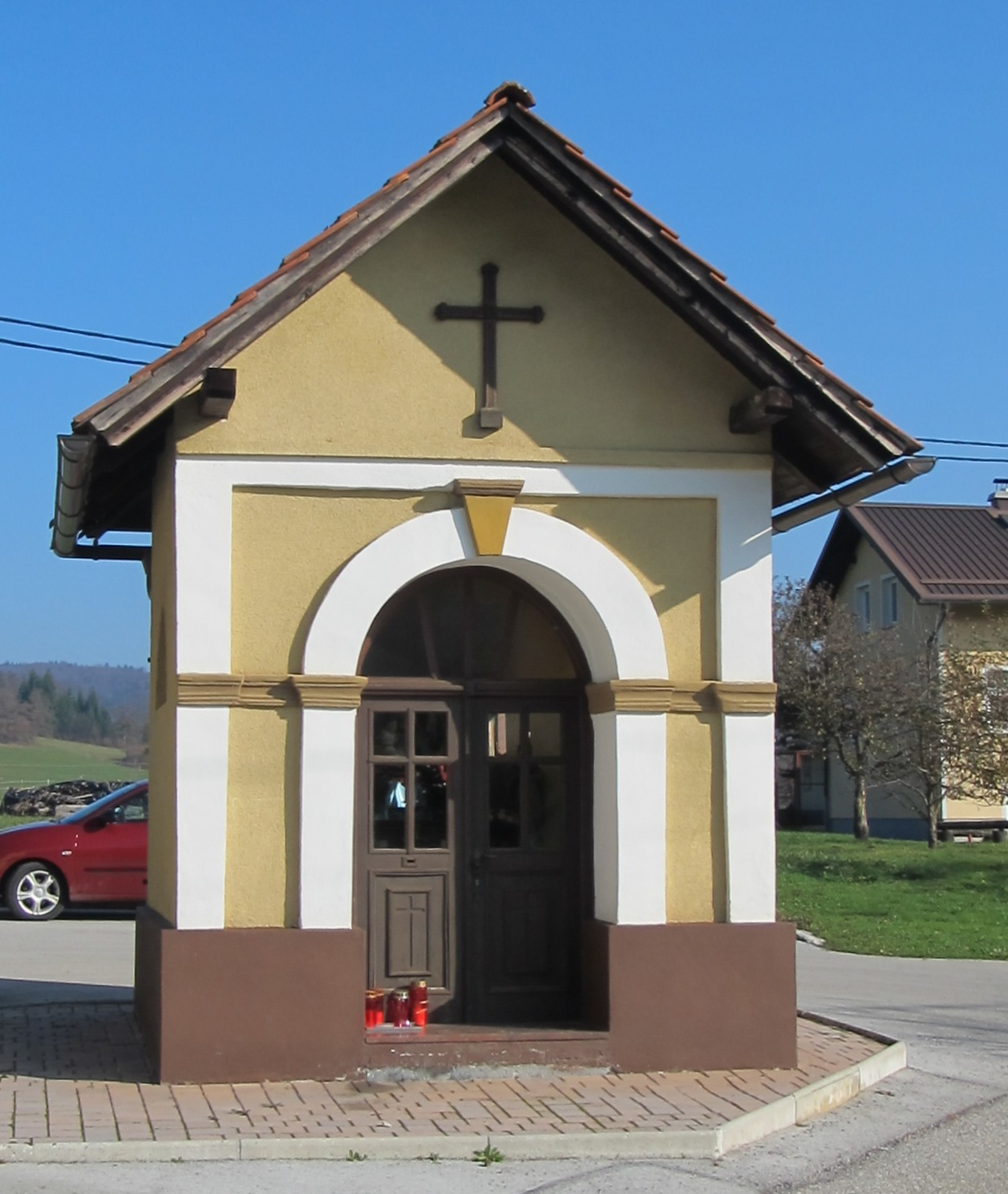 Wayside shrine in Bruhanja Vas, Municipality of Dobrepolje, Slovenia